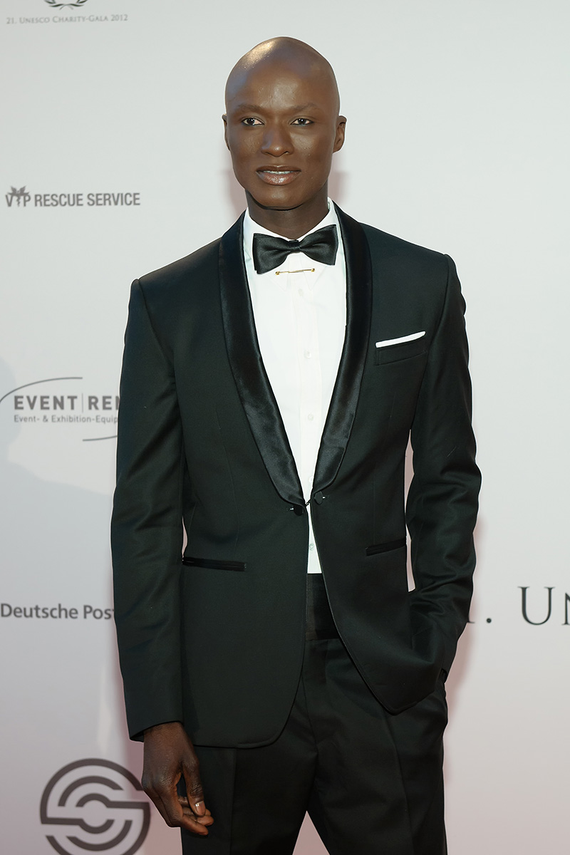 Papis Loveday attends the 21st UNESCO Charity Gala 2012 on October 27, 2012 in Dusseldorf, Germany.